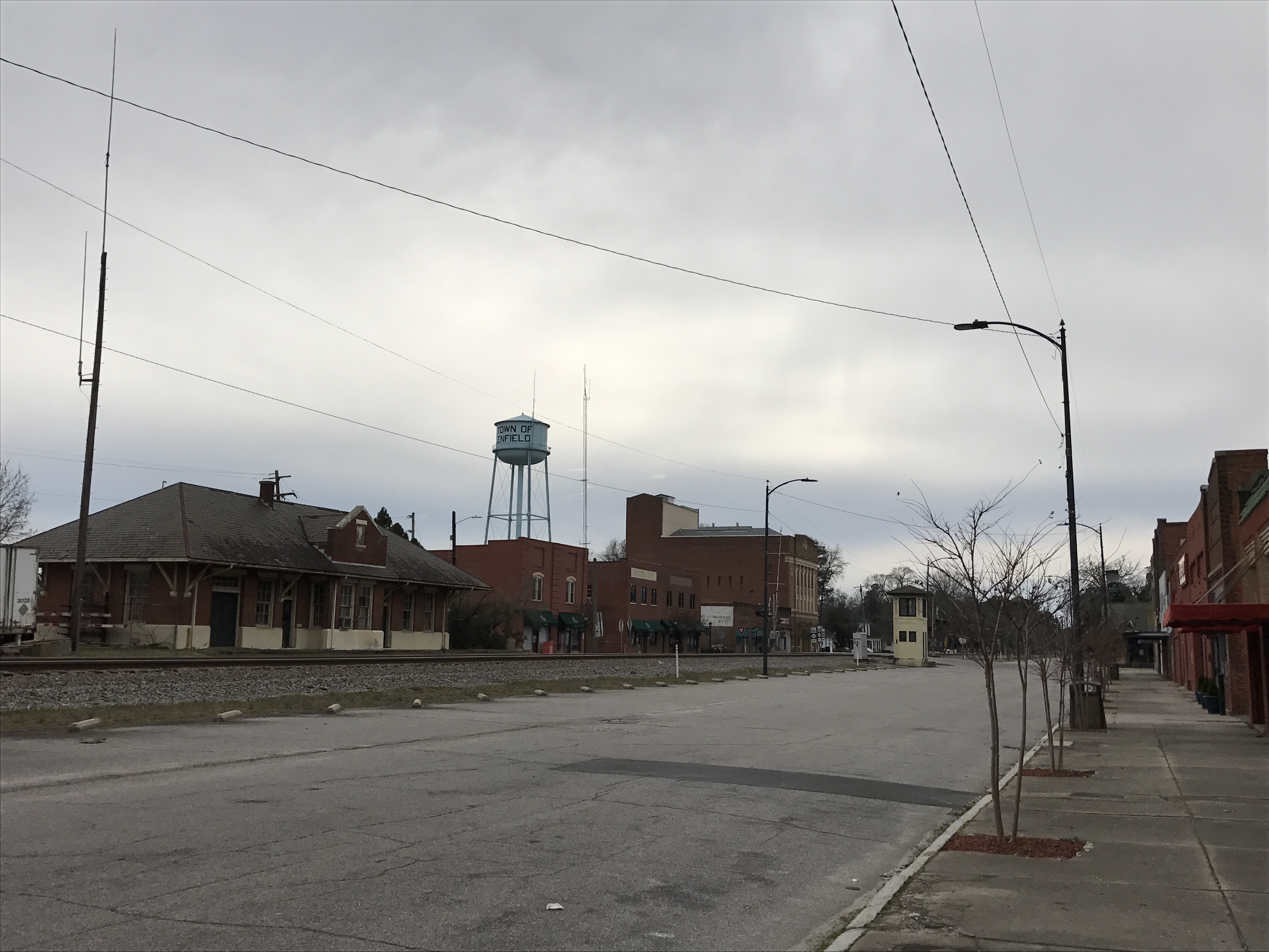 Downtown Enfield